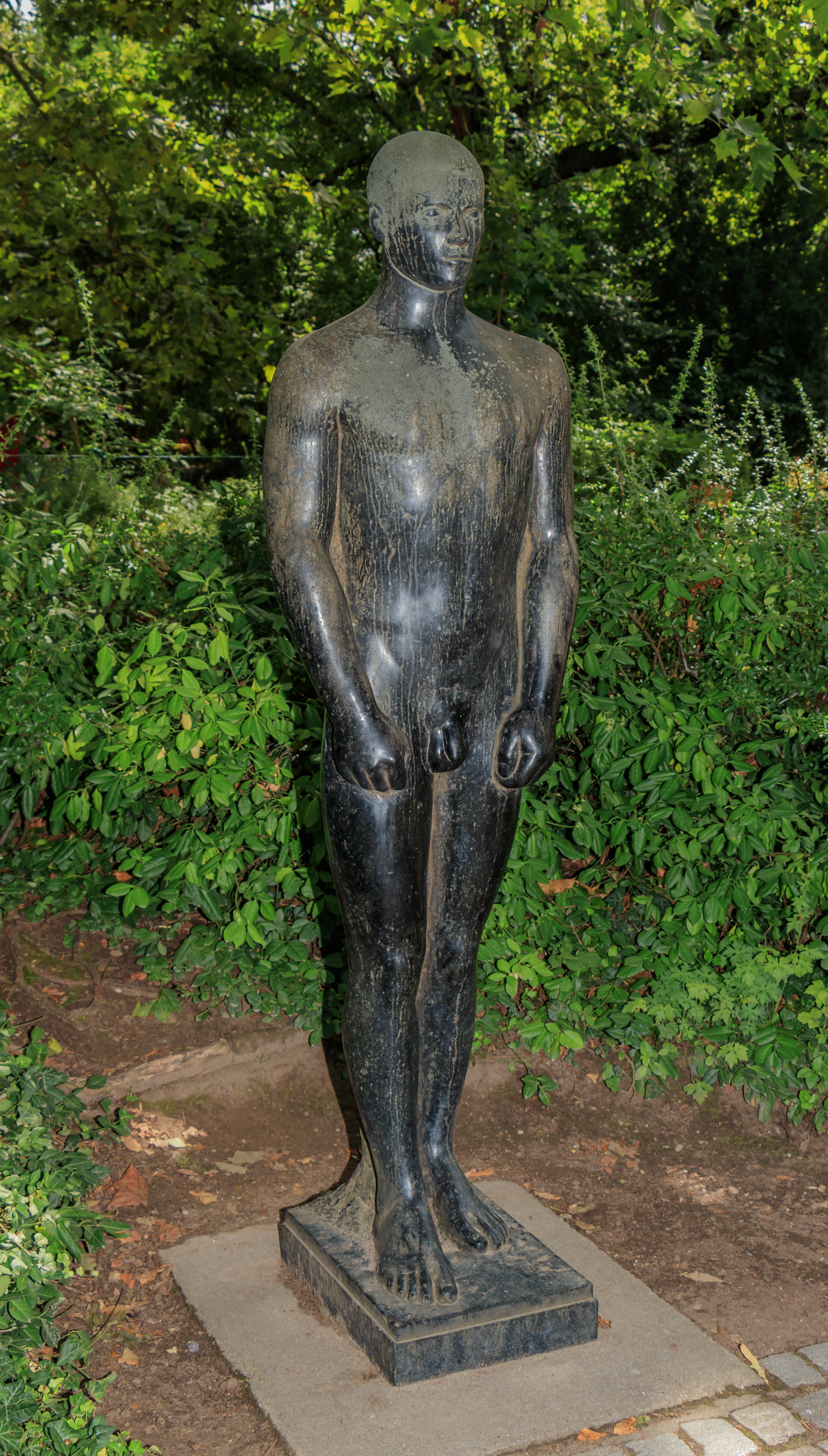 "Youngling" by Christoph Voll (1933); Zoologischer Stadtgarten Karlsruhe, Karlsruhe, Germany.